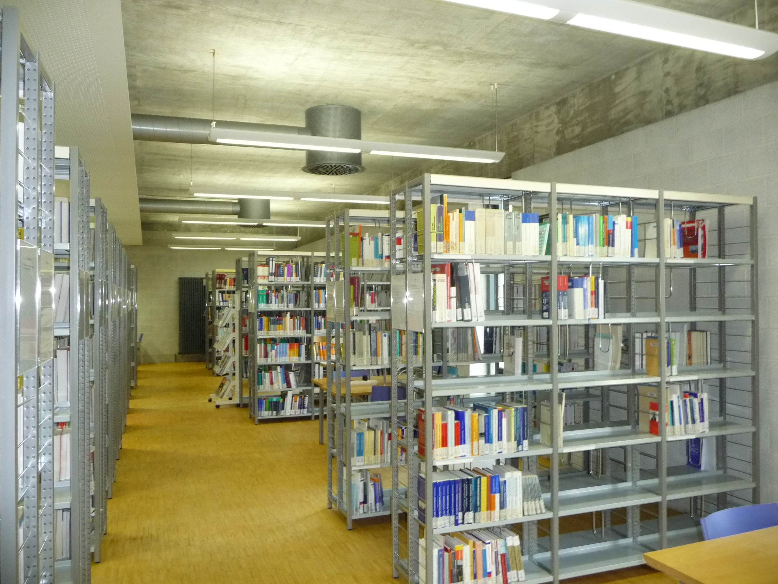 Fachhochschule Ludwigshafen